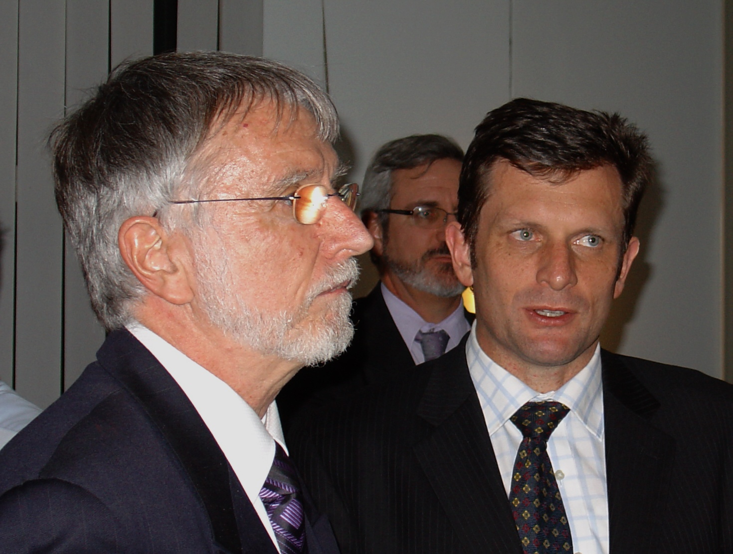 Former Australian Democrats Queensland senators Michael Macklin (left) and John Cherry. A third, Andrew Bartlett, is in the background. The occasion was a 'Last Supper' dinner for past and current Democrat parliamentarians and staff, held at Parliament House, Canberra on the evening of 17 June, 2008.